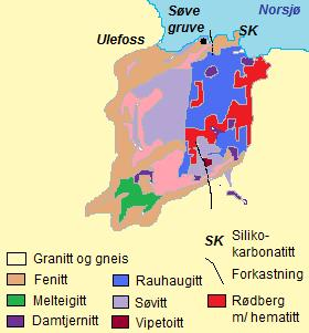 The Fens Field, a geological structure near Ulefos in Nome municipality, Telemark (Norway). Thee structure is 580 - 540 years old, and vulcanic.